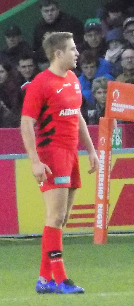 Max Malins playing for Saracens, 2019 at the Stoop. An away win against Harlequins.